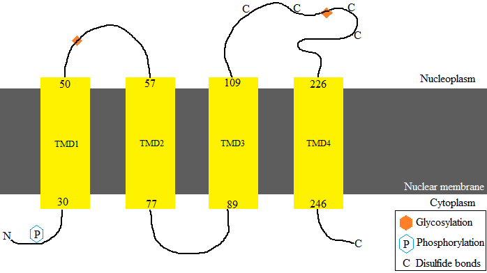 A prediction of how TMEM255A is located in the nuclear membrane in eukaryotic cells. The yellow boxes represent transmembrane domains (TMD), and the numbers reflect the amino acids the TMDs span. Orange boxes represent glycosylation, and the “P” represents phosphorylation sites. The Cs on the extracellular region between TMD3-4 represent cysteines that are predicted to form disulfide bonds.